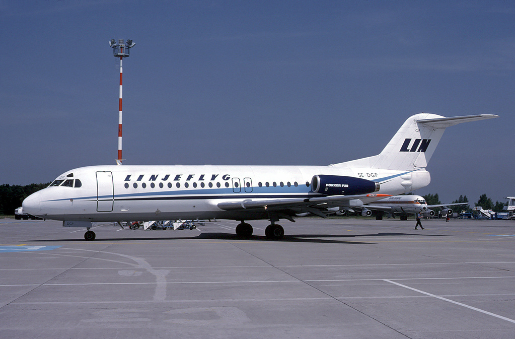 A Linjeflyg Fokker F-28-4000 Fellowship at Euroairport (Basel, Muelhouse, Freiburg)